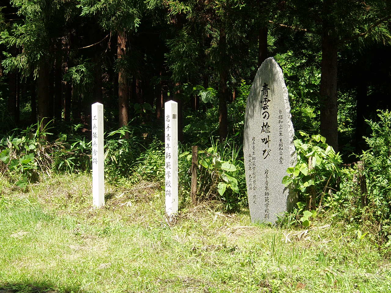 Memorial stone of Iwate Youth Normal School (Iwate Normal School for Young Men's School Teachers), located in Kanegasaki, Iwate, Japan.